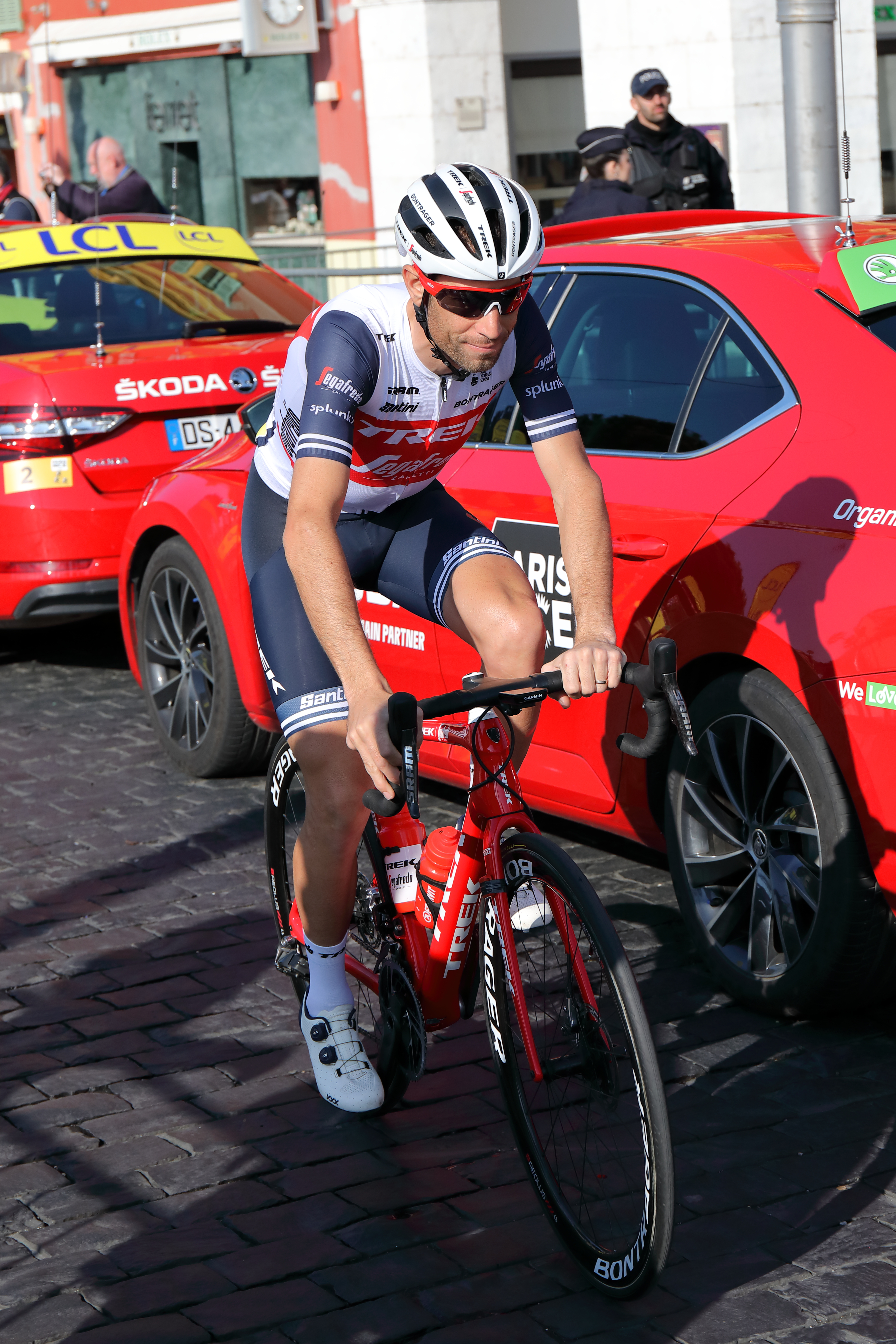 Italian cyclist Vincenzo Nibali in Nice at the start of the 7th stage of the 2020 Paris-Nice